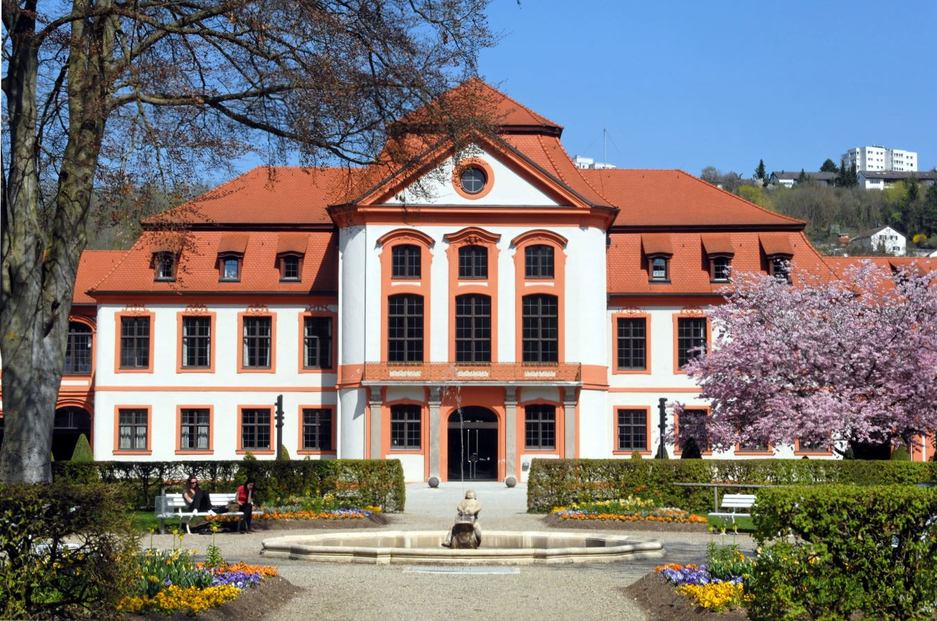 Eichstätt, Bishops Residence in Summer